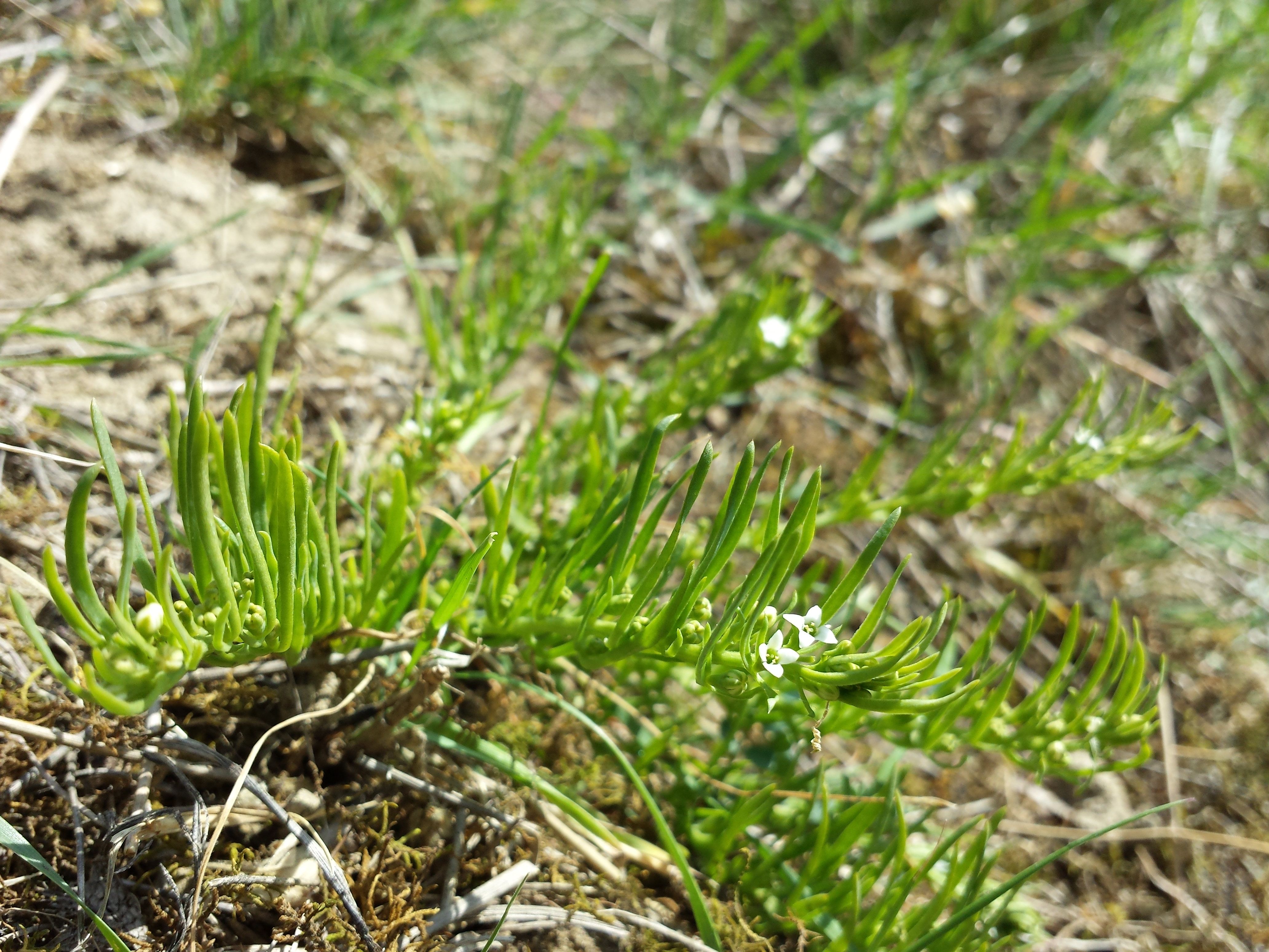 Florescence Taxon: Thesium dollineri (sensu Fischer et al. EfÖLS 2008 ISBN 978-3-85474-187-9) Location: Gebmannsberg, district Korneuburg, Lower Austria - ca. 340 m a.s.l. Habitat: dry grassland (Loess)